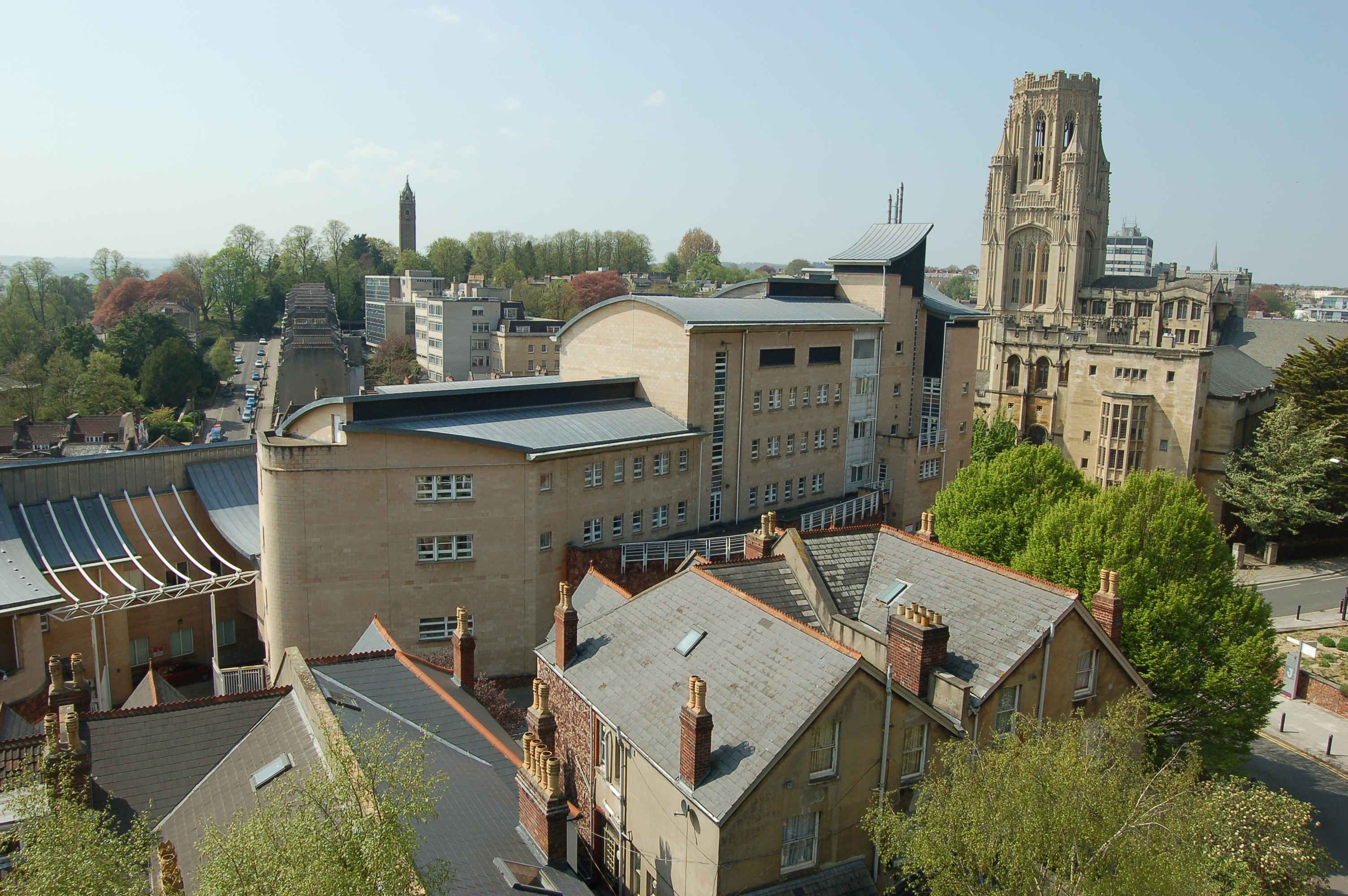 View of the Merchant Venturers Building and the Wills Memorial Building from top of the Synthetic Chemistry Building, School of Chemistry, University of Bristol.